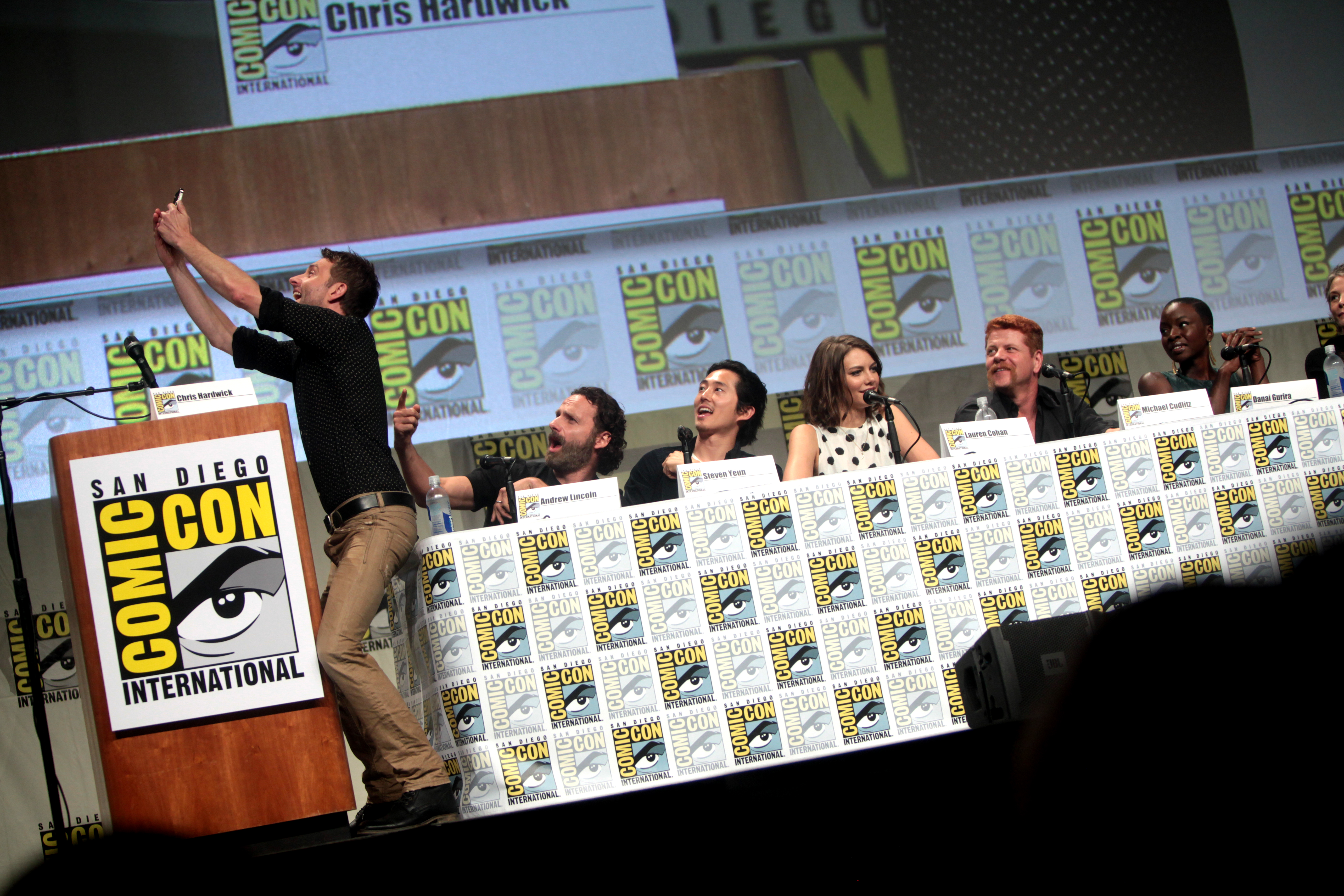 Chris Hardwick, Andrew Lincoln, Steven Yeun, Lauren Cohan, Michael Cudlitz and Danai Gurira speaking at the 2014 San Diego Comic Con International, for "The Walking Dead", at the San Diego Convention Center in San Diego, California.